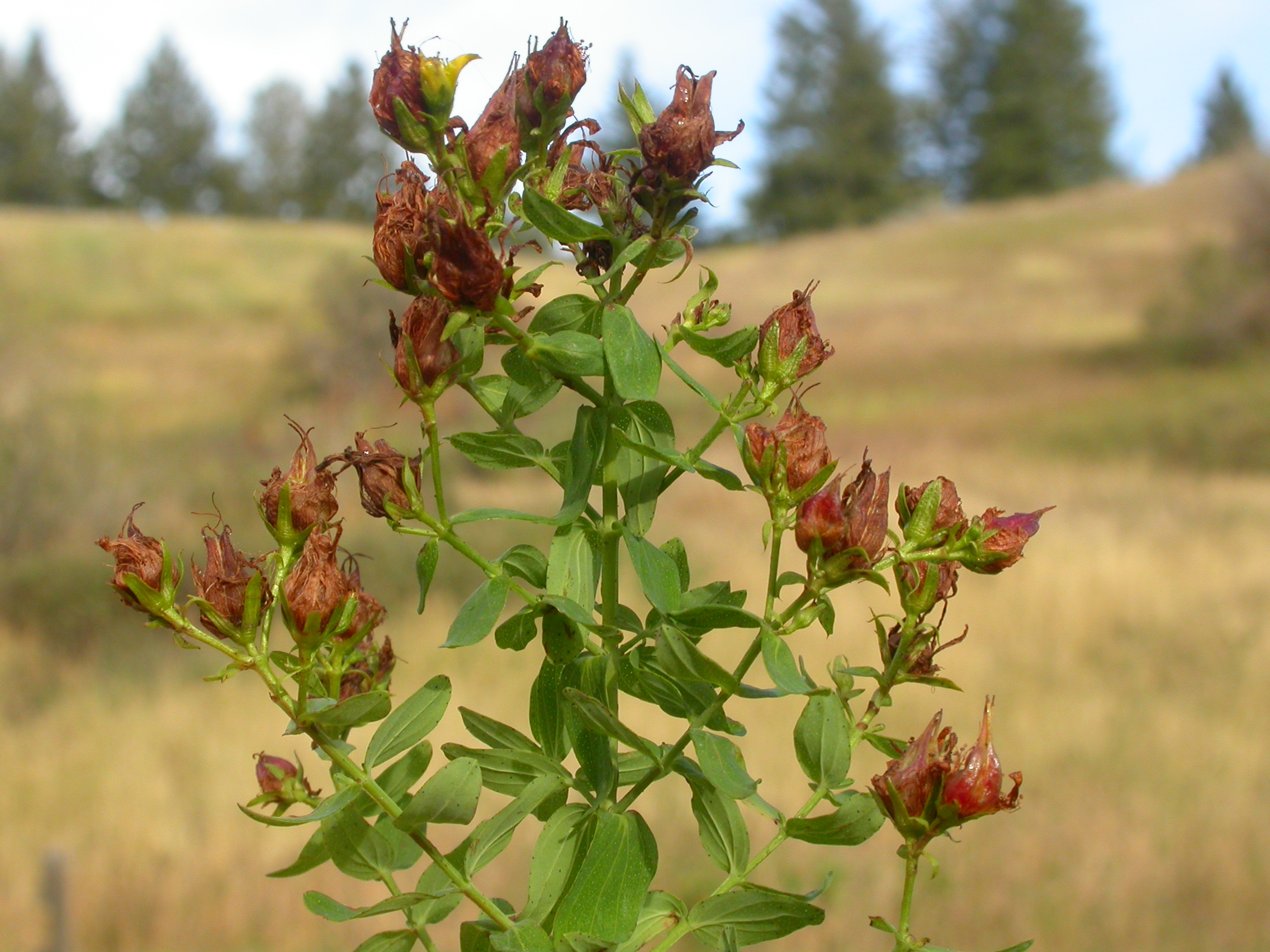 Opposite leaves and tranluscent punctate leaf glands make this an easy genus to identify.